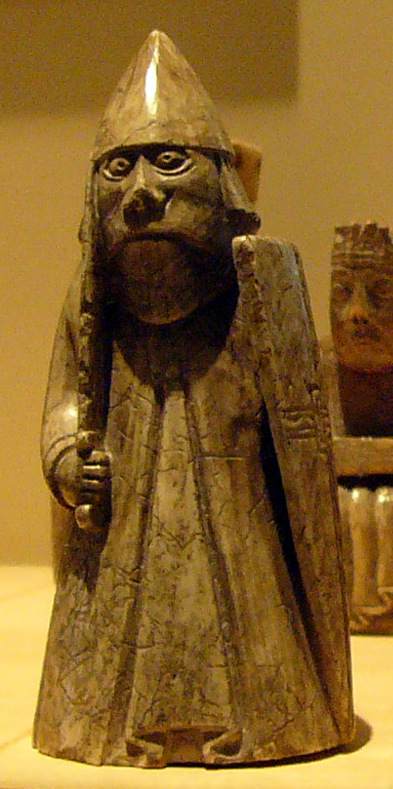 One of the Lewis chessmen. This photo is a cropped version of File:Chess02.jpg.